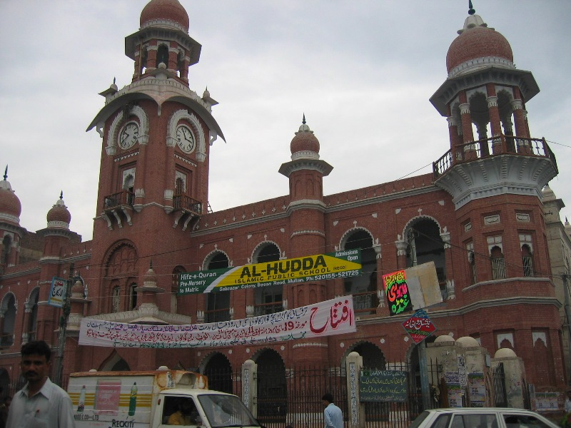 Clock Tower — in Multan. Indo-Saracenic Revival architecture. Credits Author: Zeeshan Javeed Taken photo during a trip to Multan, Pakistan in 2005.